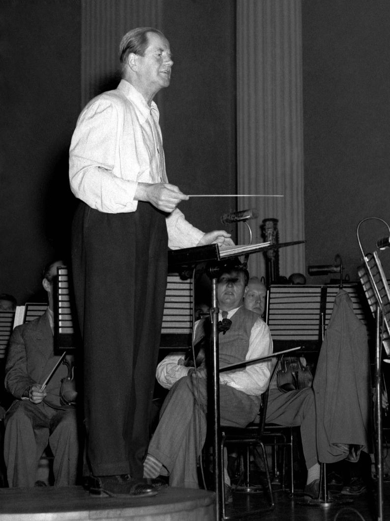 Photograph of the Finnish conductor Tauno Hannikainen (1896–1968) at orchestral rehearsal of the Helsinki Philharmonic Orchestra, Helsinki University Main Hall.